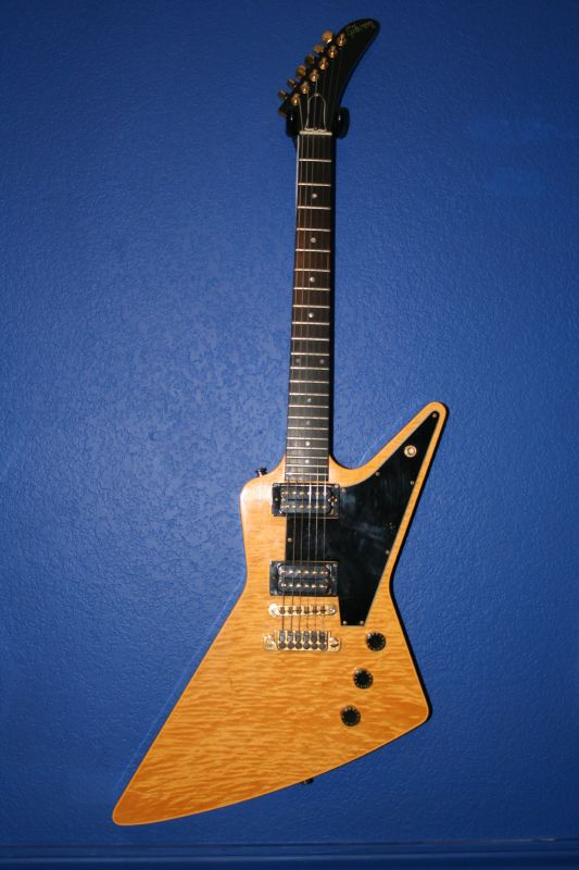 I took a good portion of my student loan in 1983 and purchased this guitar from a music store in Hattiesburg, Mississippi - V.J.'s Strings & Things. My first Gibson guitar. Except for my childhood guitars (see other pics), this is the oldest guitar I have. It is a 1982 or 1983 model. It is a heavy guitar with a maple top and gold hardware. It is special and I want to be buried with it.